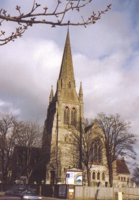 St Mary's parish church, Longfleet, Poole, Dorset, seen from the southwest